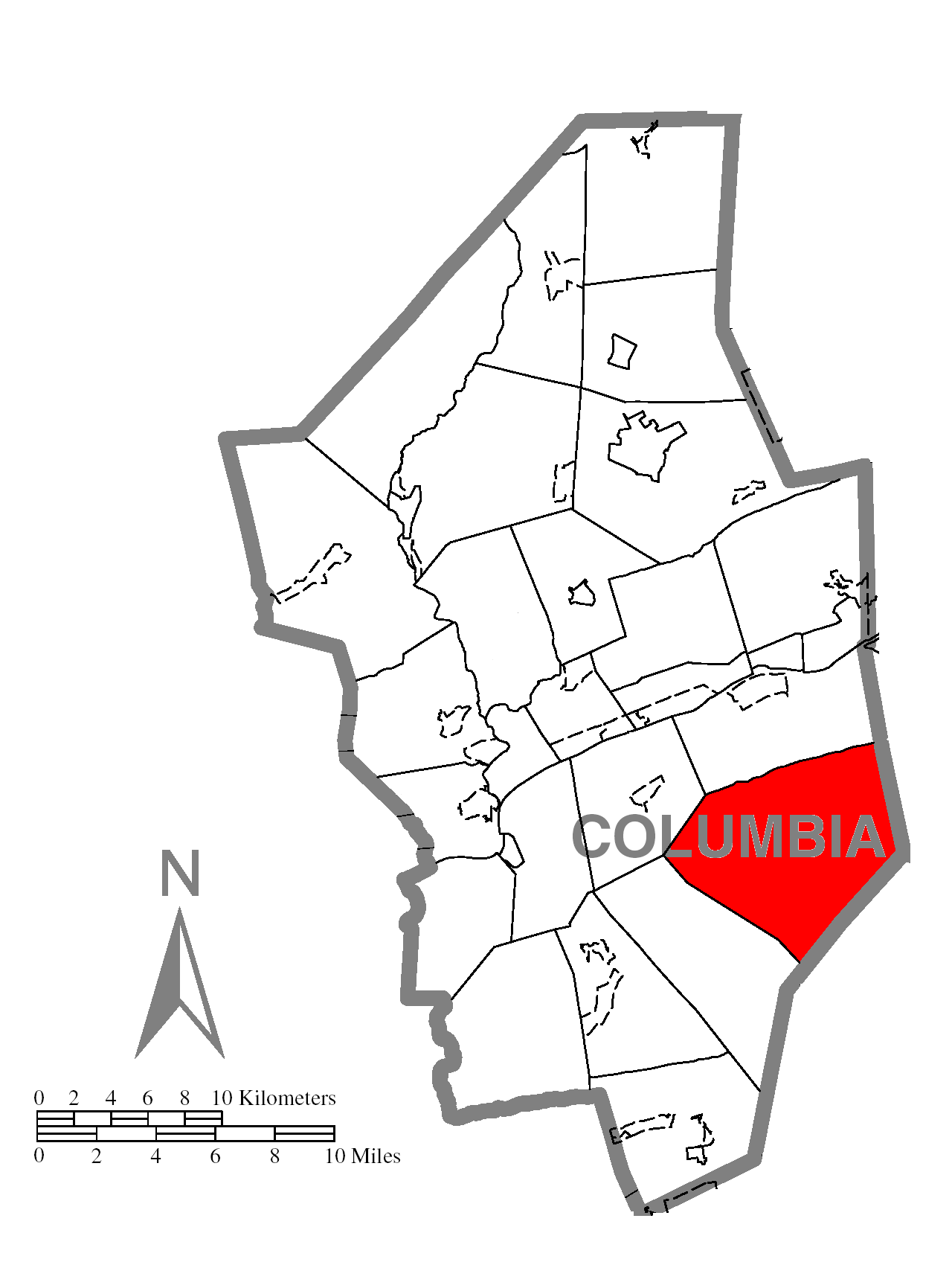 A map of Columbia County showing Beaver Township, Pennsylvania (alternate) highlighted on the map.